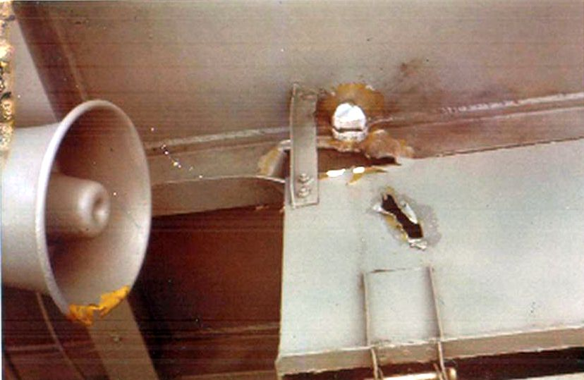 View of a damage from a North Vietnamese 76 mm rocket aboard the U.S. Navy destroyer USS Hanson (DD-832), in 1972.